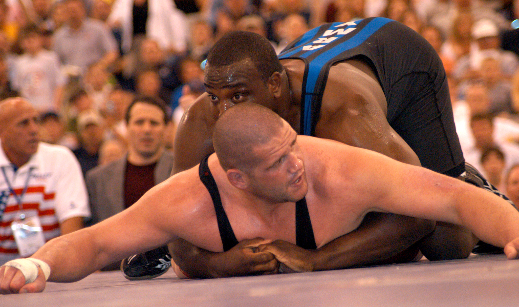 April 13, 2004 Sgt. Dremiel Byers, a member of the U.S. Army World Class Athlete Program at Fort Carson, Colo., posts a 3-1 victory over Olympic gold medalist Rulon Gardner to win the Greco-Roman super-heavyweight division of the 2004 U.S. National Wrestling Championships at Las Vegas Convention Center.